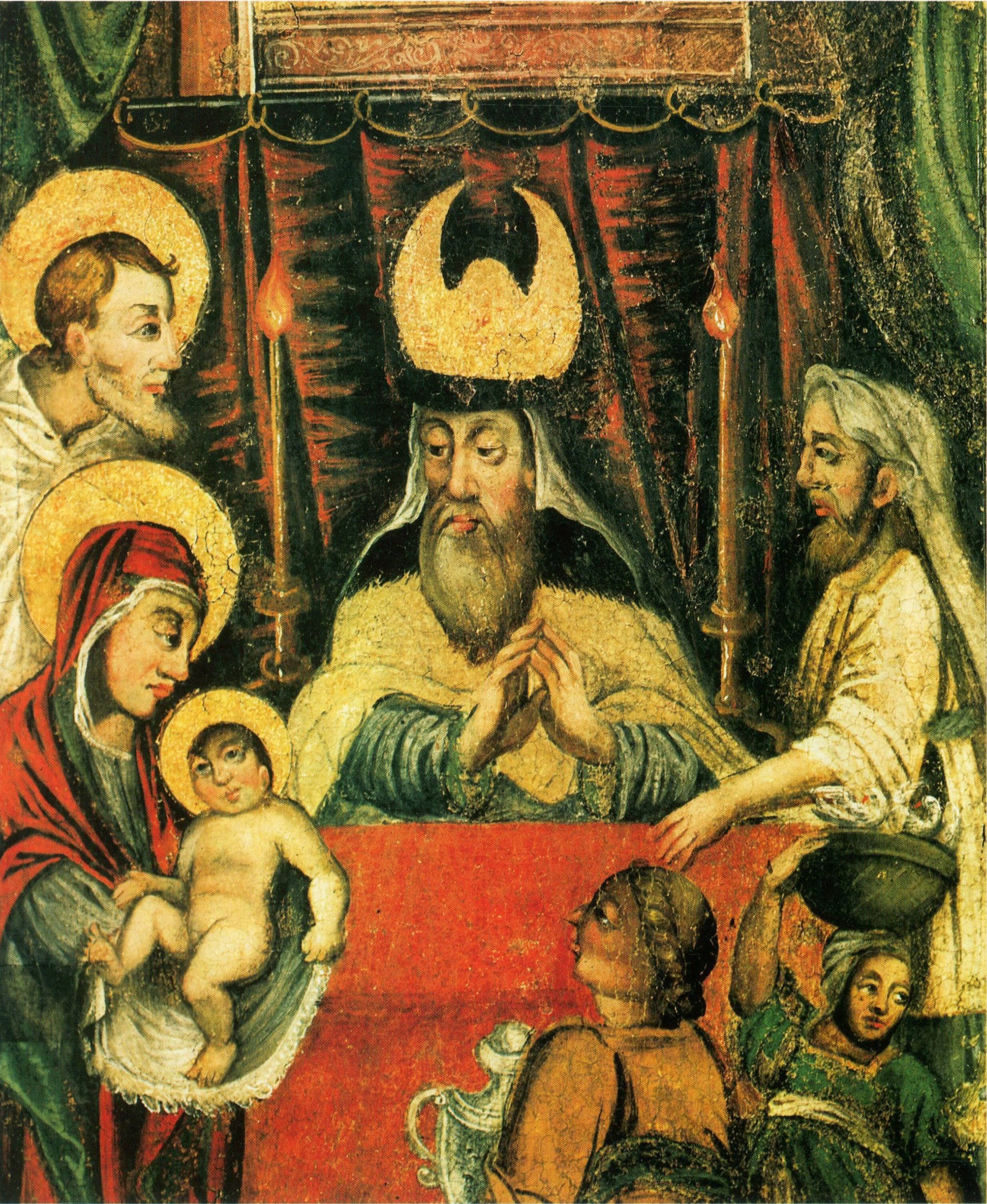 THE CIRCUMCISION. 1st half of the 17th c. Wood, tempera. The Intercession Church, Zhabinka, Brest region.